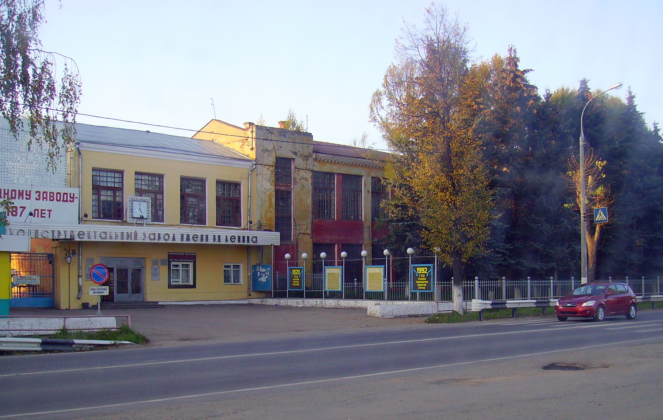 Vorsma Medical tools factory